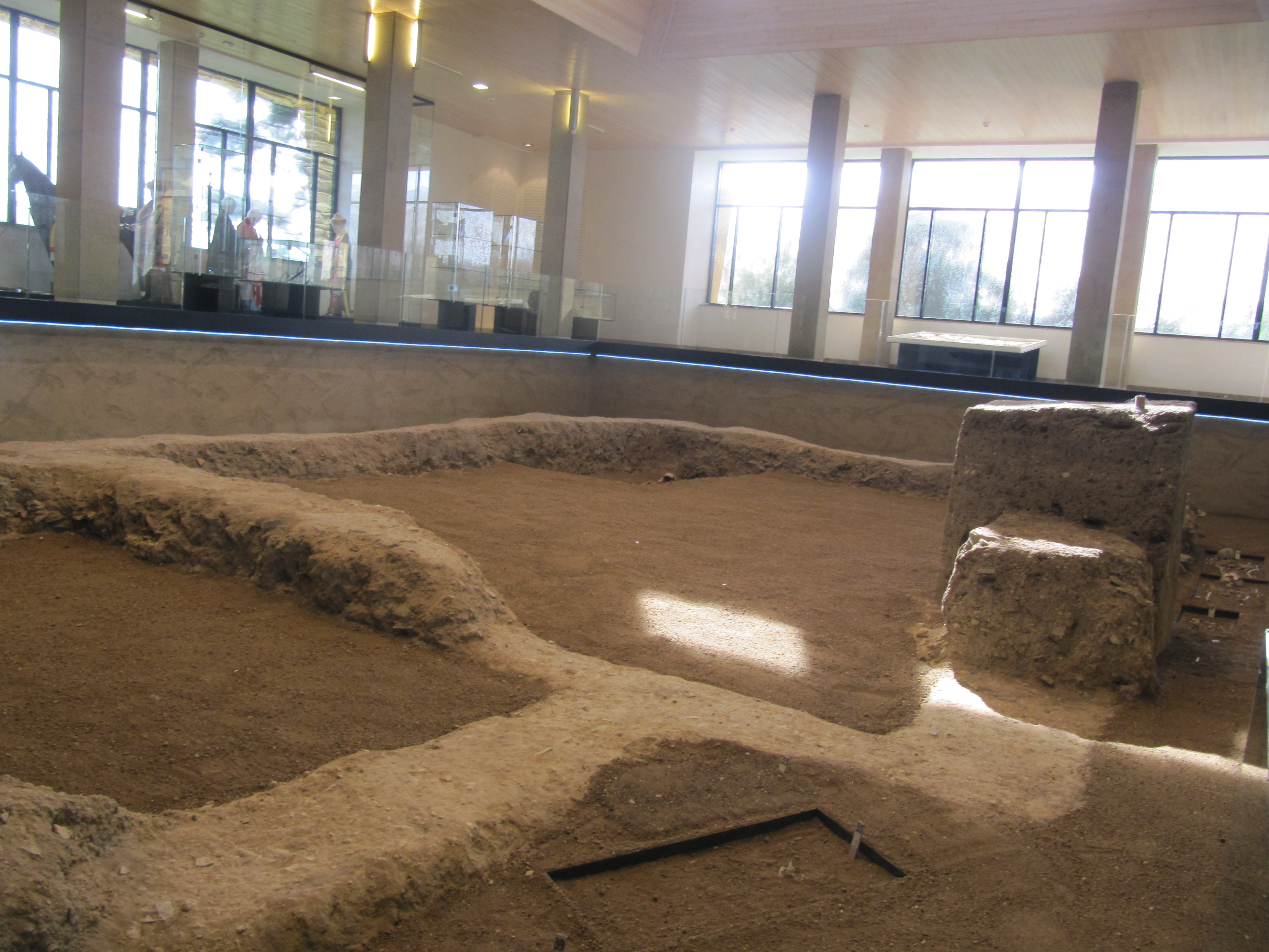 Staré Město in Uherské Hradiště District, Czech Republic. Památník Velké Moravy (Memorial of Great Moravia).